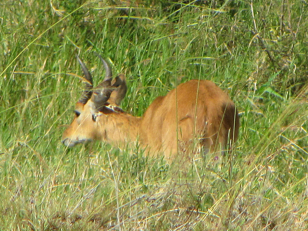 Bohor Reedbuck (Redunca redunca) male, Serengeti, Tanzania